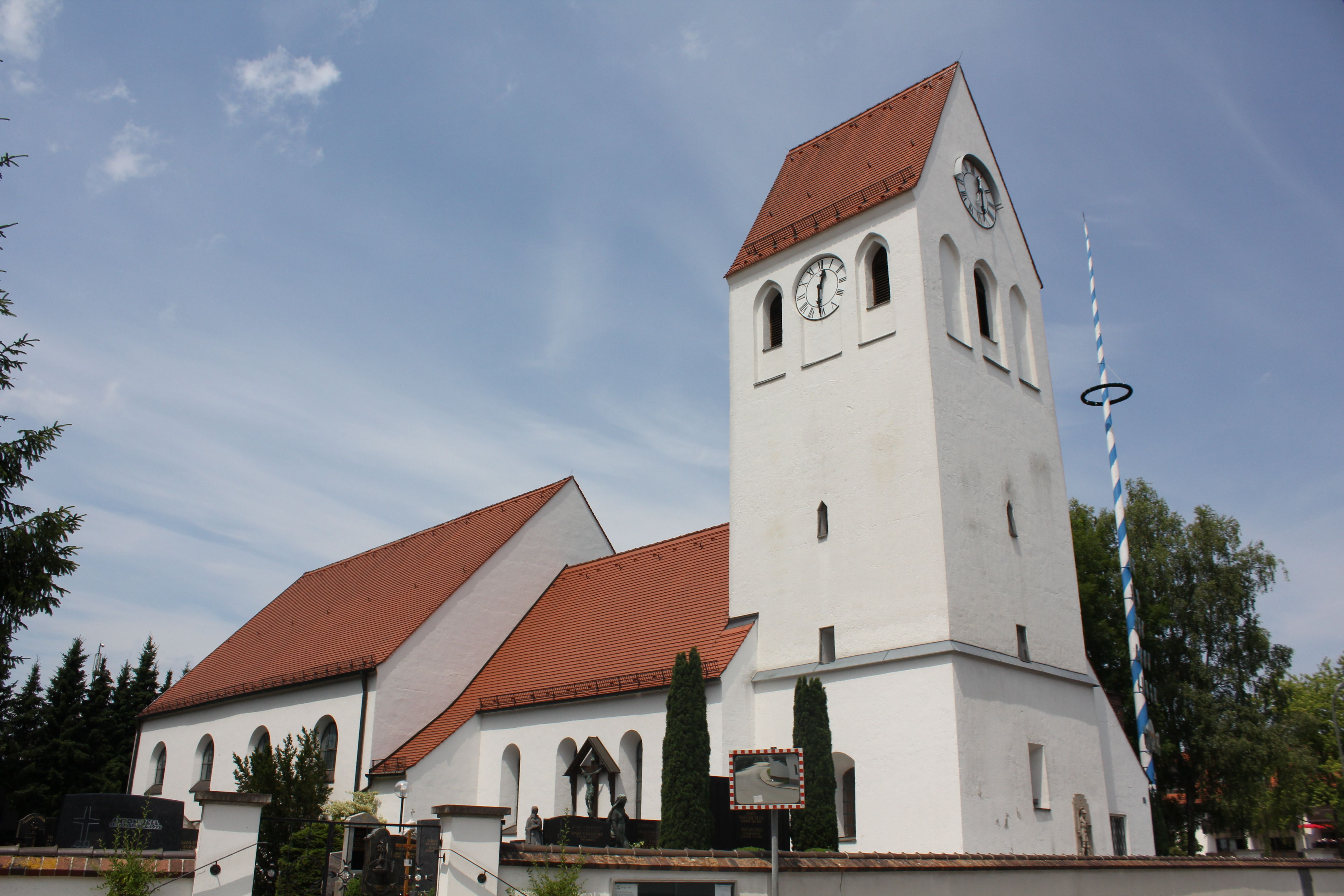 Church of St. Michael, Poing